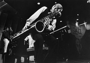 Gerry Mulligan